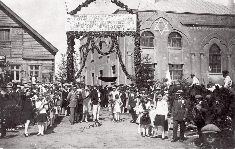 Jews welcoming Lithuanian President Antanas Smetona under a Lithuanian and Hebrew banner, Švėkšna, 1930s